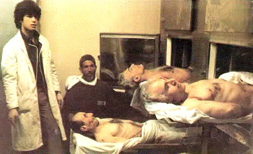 executed Generals - bottom Reza Naji, top right Mehdi Rahimi, top left Manuchehr Khosrowdad, 15. February 1979 - published in Keyan, Etelaat and foreign press